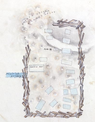 An exhibit in the Eureka high treason trials showing details of the stockade enclosure.